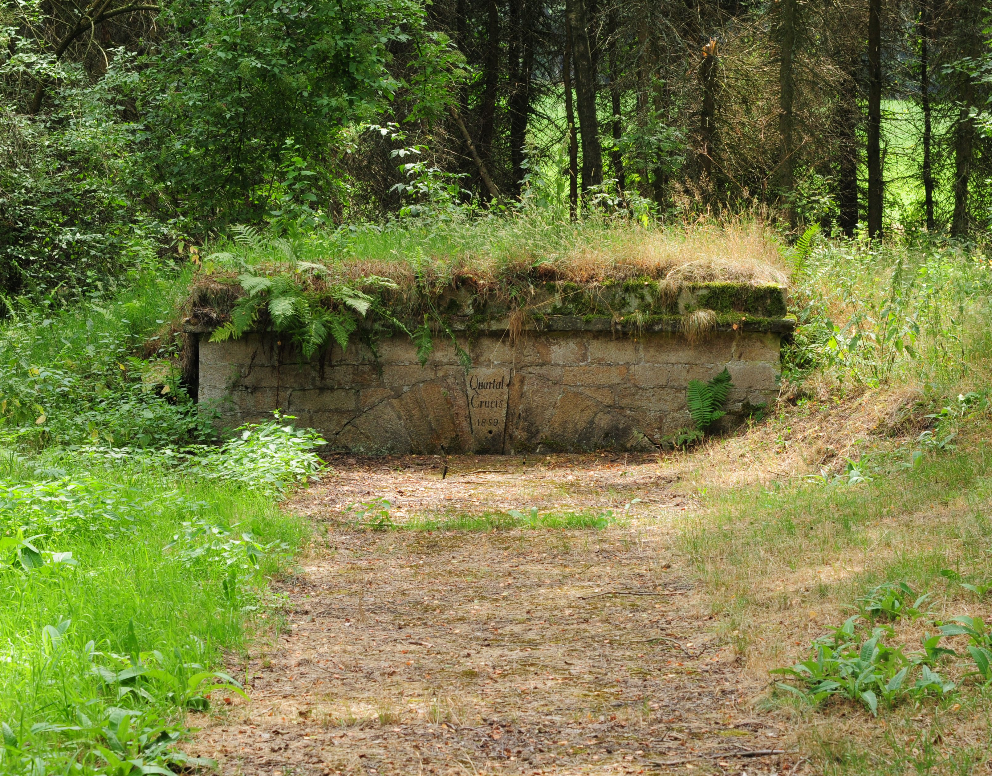 Revierwasserlaufanstalt Freiberg (“Freiberg Mines Water Management System”): Dörnthal leat, Haselbacher Rösche (mining gullet), lower opening hole (district Erzgebirgskreis, Free State of Saxony, Germany)